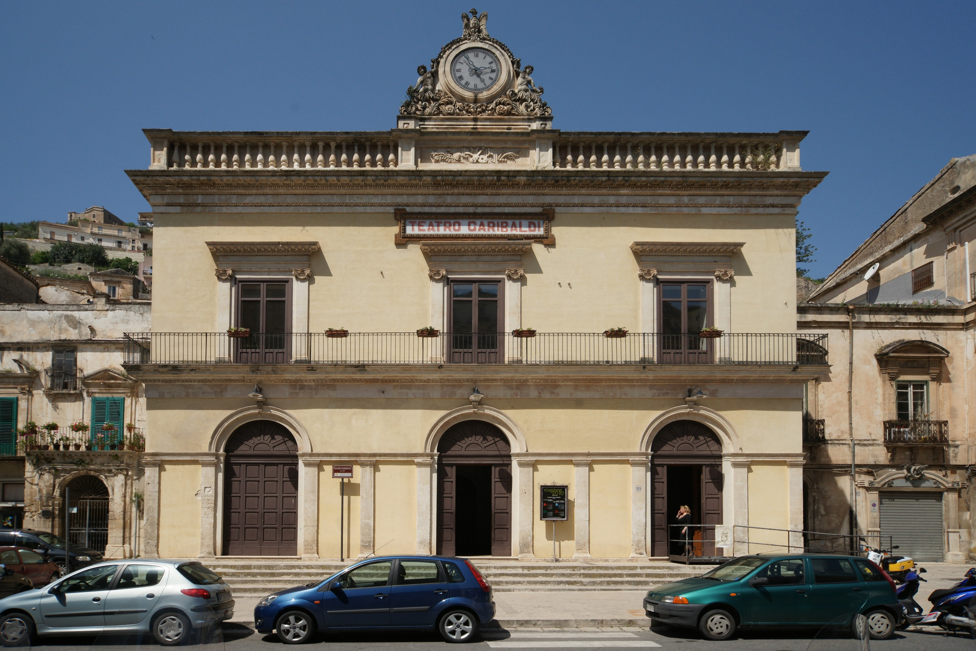 Modica: Teatro Garibaldi